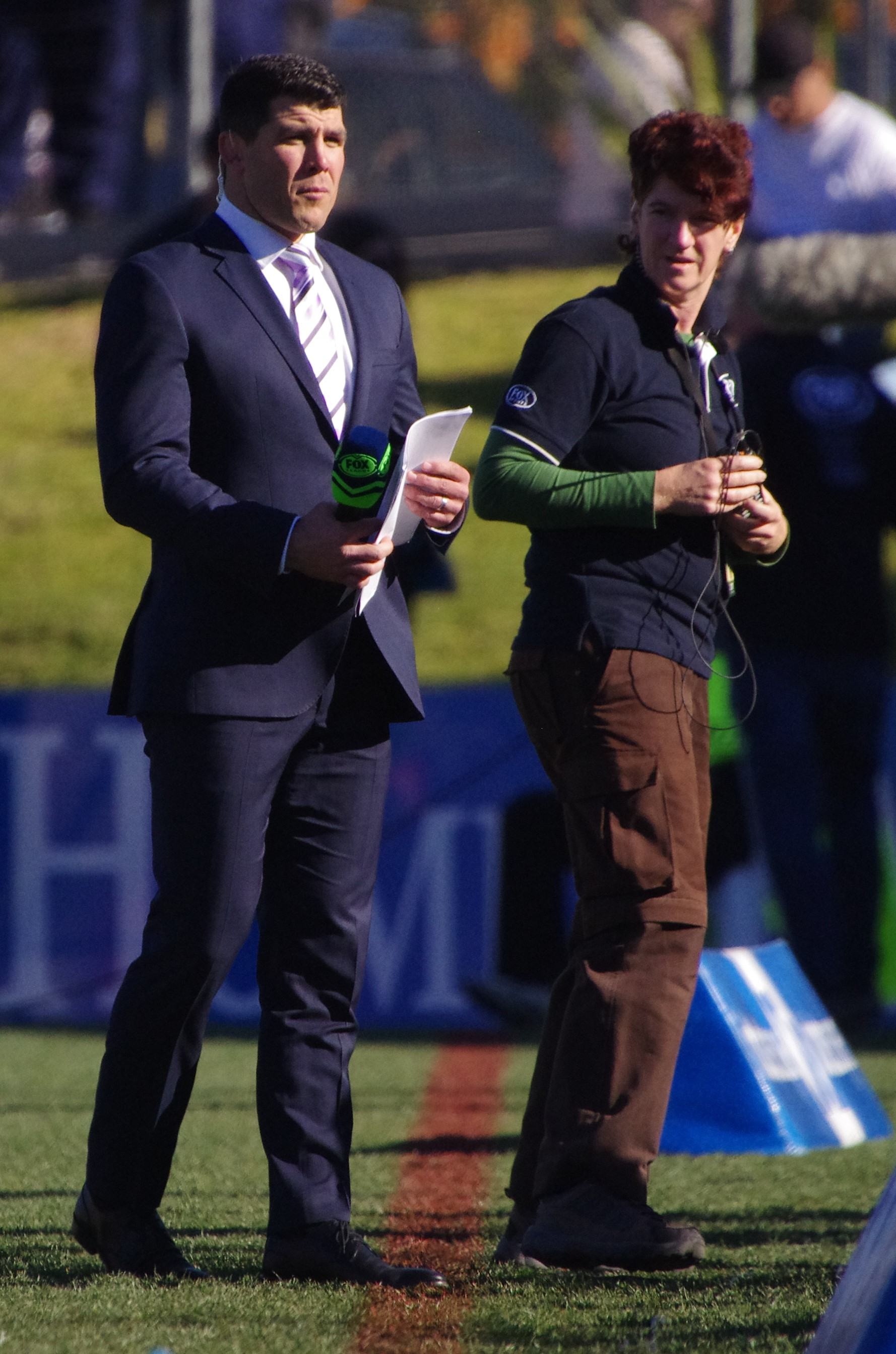 Mick Ennis